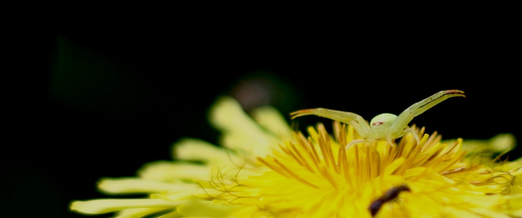 Misumena nigromaculata in Madeira